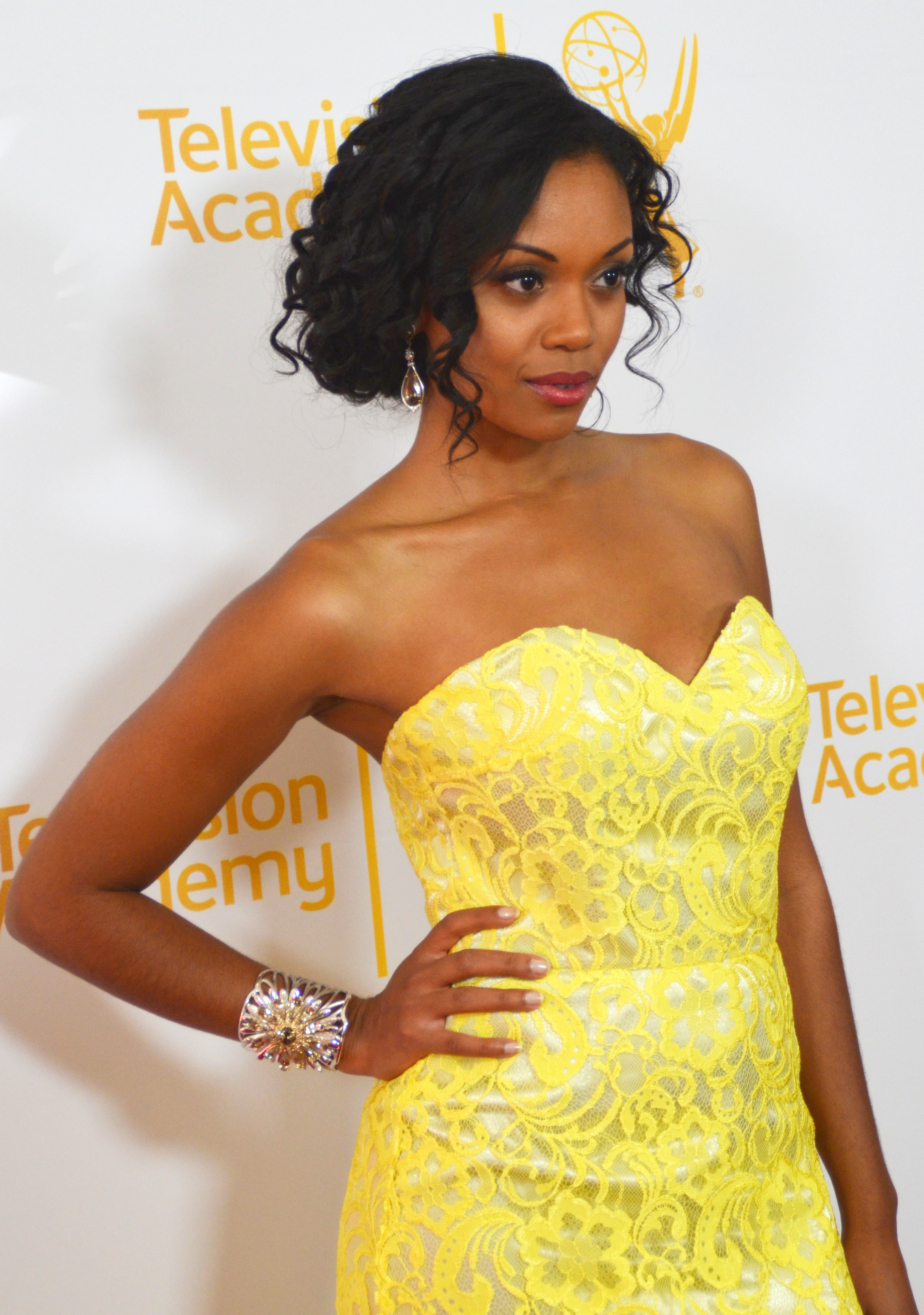 Mishael Morgan Mingle Media TV and Red Carpet Report host Ashley Harrington were invited to cover the 2014 Daytime Emmy® Awards Nominees Cocktail Reception Hosted by the Television Academy’s Daytime Programming Peer Group Governors at the London West Hotel in Hollywood.